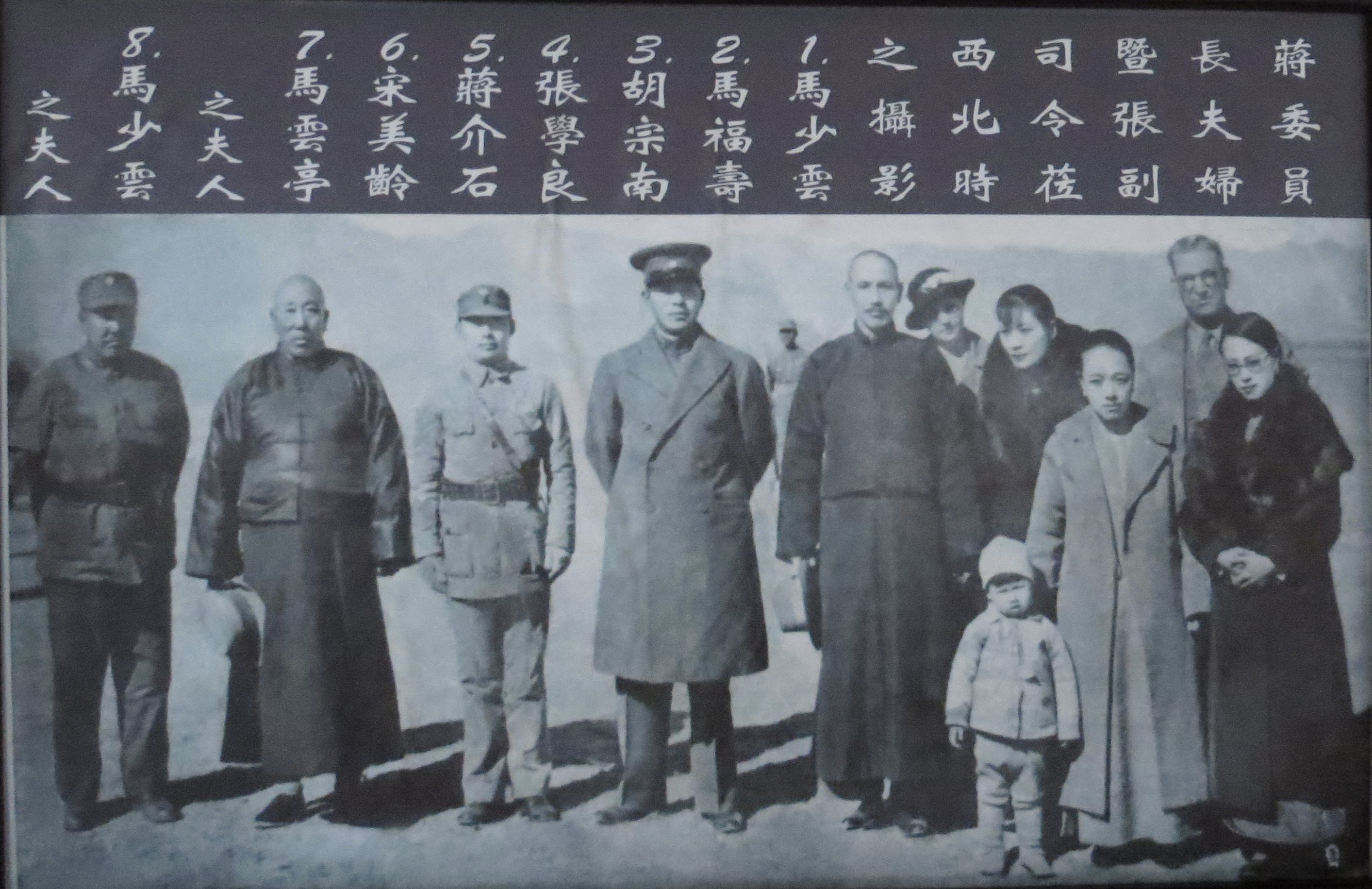 The Ma Clique rulling Qinghai under Tang dynasty and Republic of China periods with Jiang Jieshi (Chiang Kai-shek), and an european (US ?) guy. Picture situated in Qinghai Xining Ma Bufang Museum (青海西宁马步芳公馆) at Xining. From left to Right